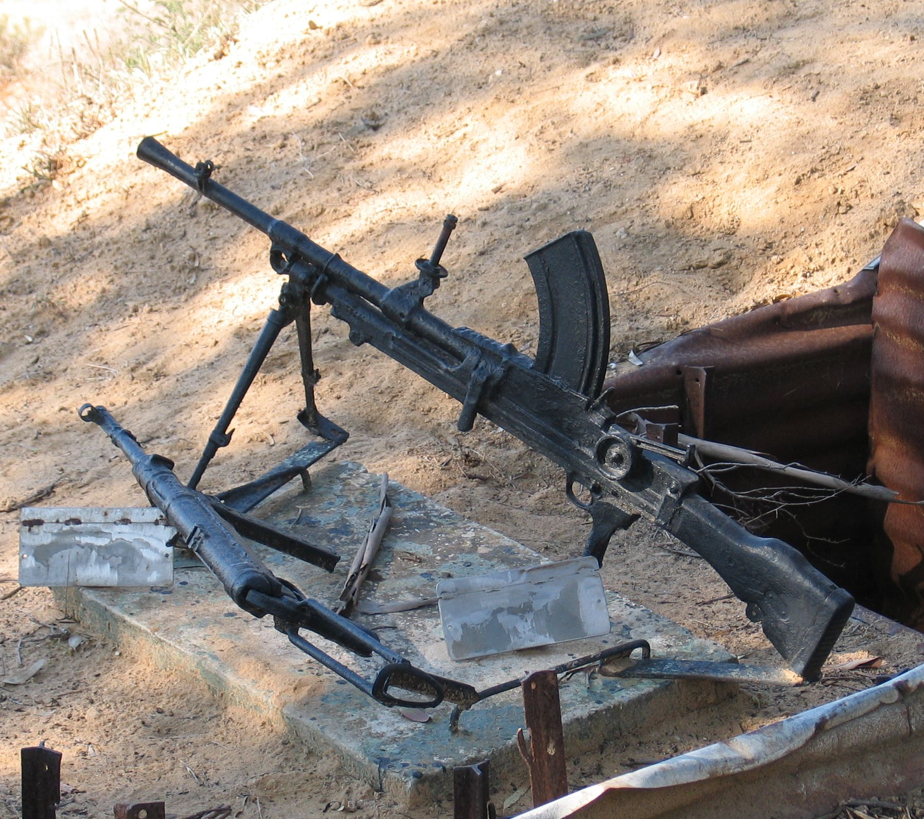 Bren light machine gun at Yad Mordechai battlefield reconstruction site.